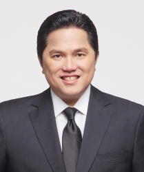 Official portrait of Minister of State Owned Enterprises (Indonesia), Erick Thohir. He was appointed at 23 October 2019